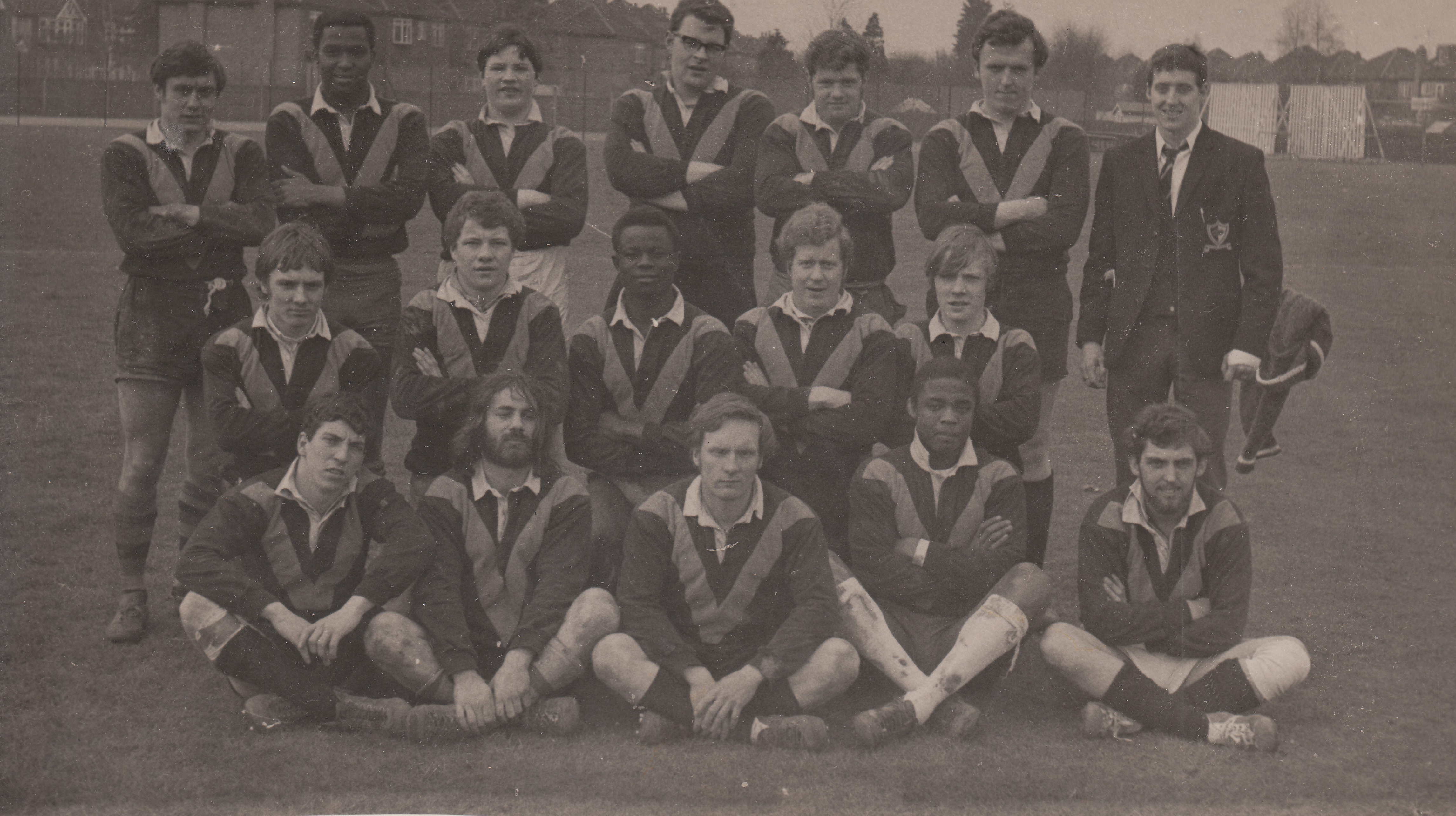 Peckham Amateur Rugby League Club